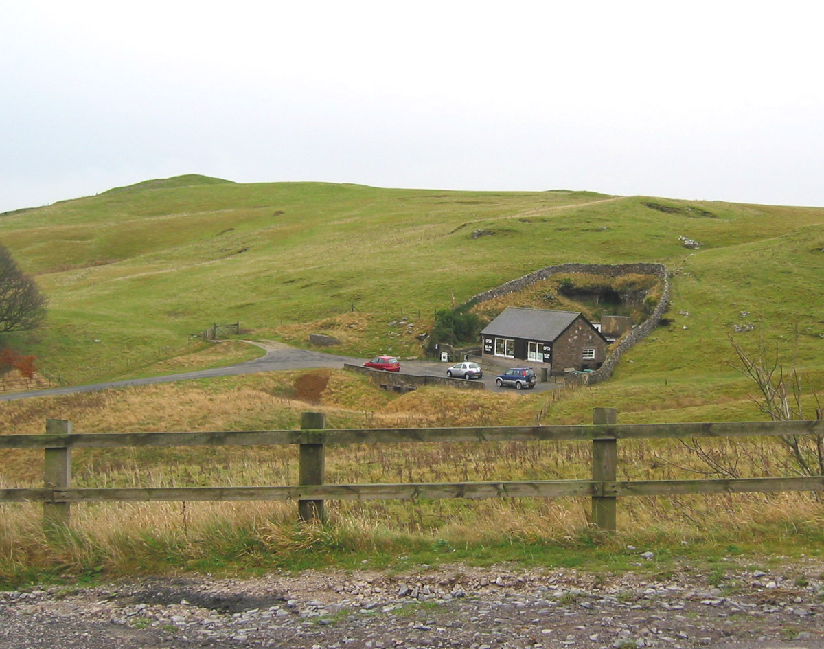 Entrance to the Blue John Cavern, near Castleton. Photograph by T Chalcraft